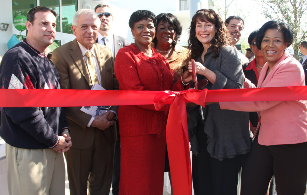 Parkview Gardens Ribbon Cutting, 10-30-12